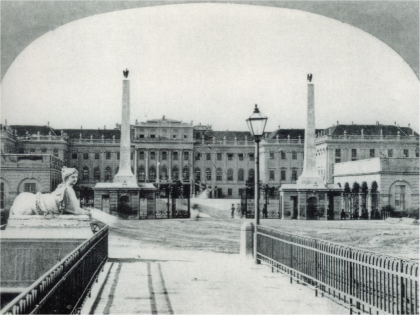 Front view of the castle Schönbrunn in Vienna